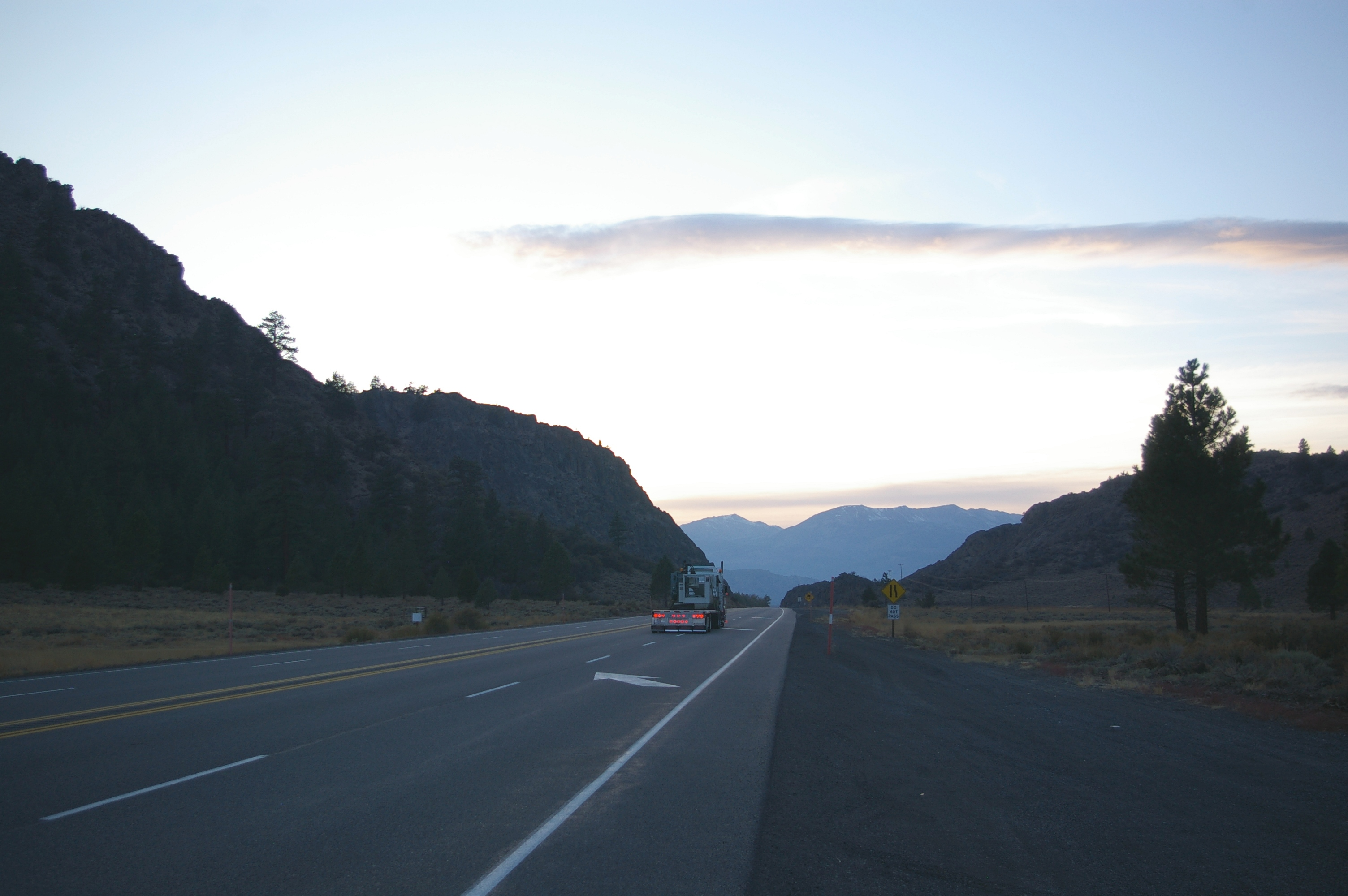 Devils Gate Summit along U.S. Route 395 in California